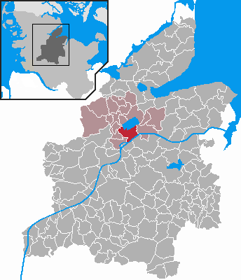 Locator maps of municipalities in Schleswig-Holstein - District Rendsburg-Eckernförde